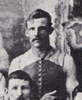 Photograph of Jack Geddes in 1899.